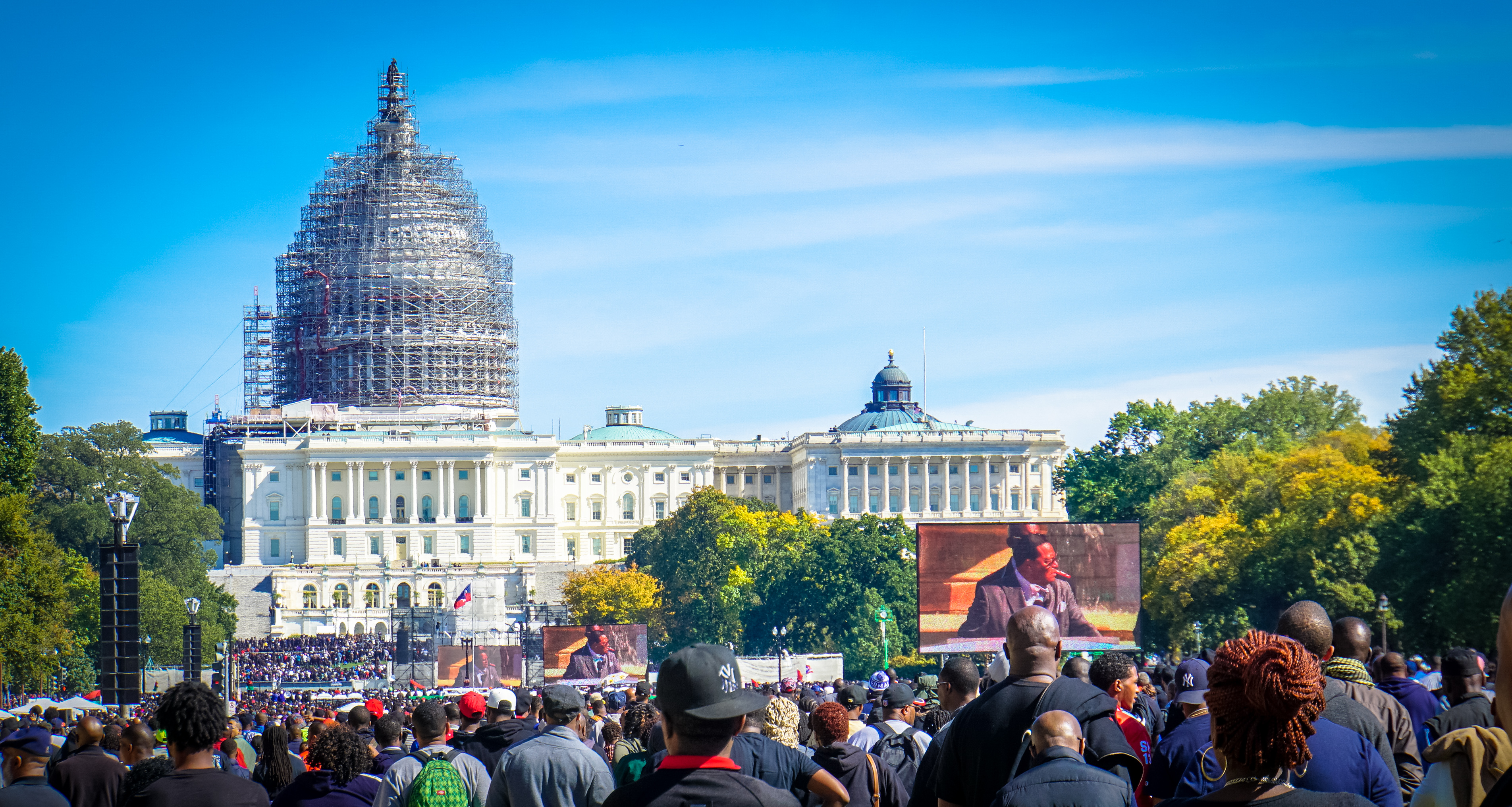 Million Man March Washington DC USA 09675